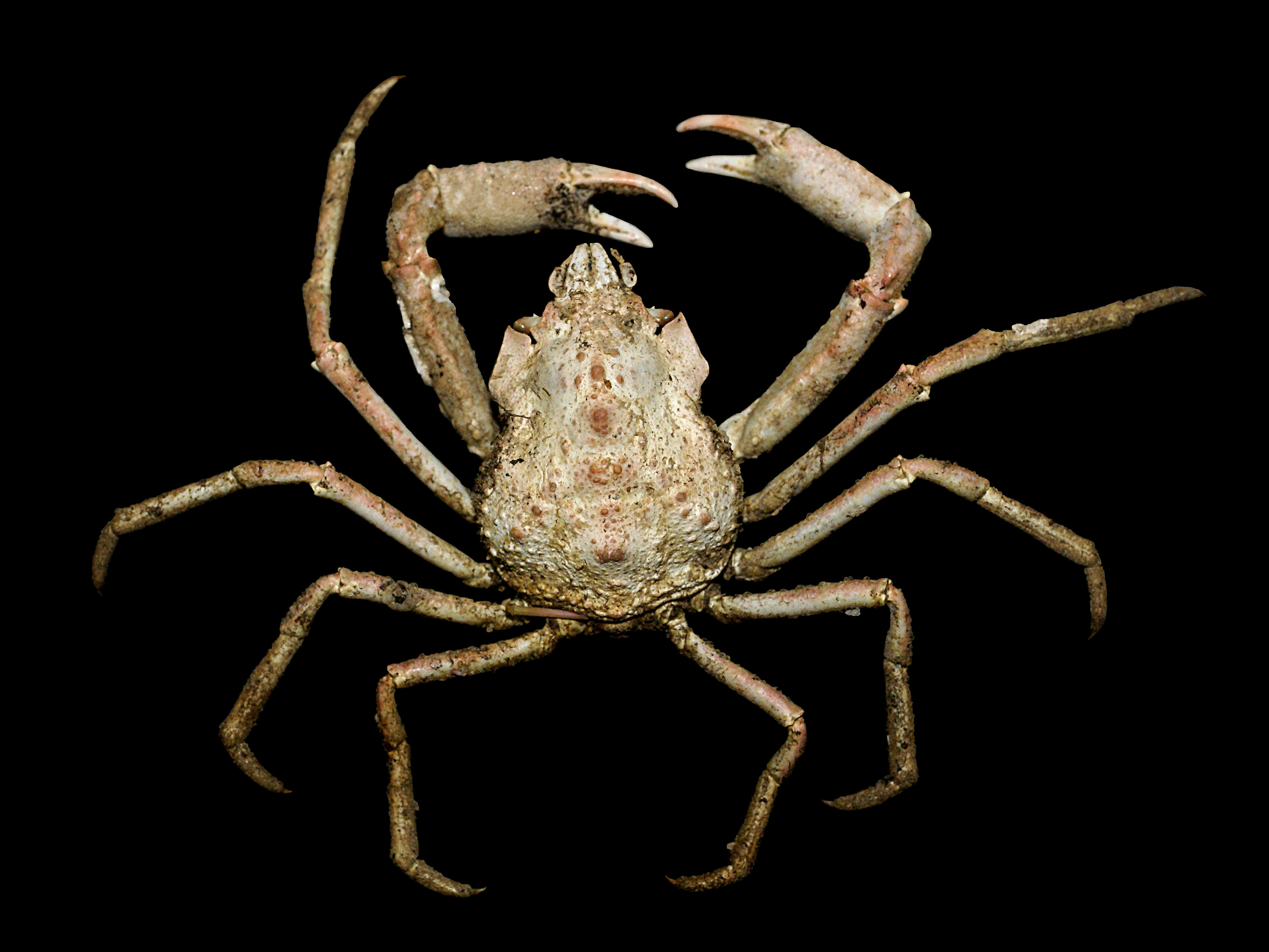 Contracted crab from the Southern North Sea. Lab image.